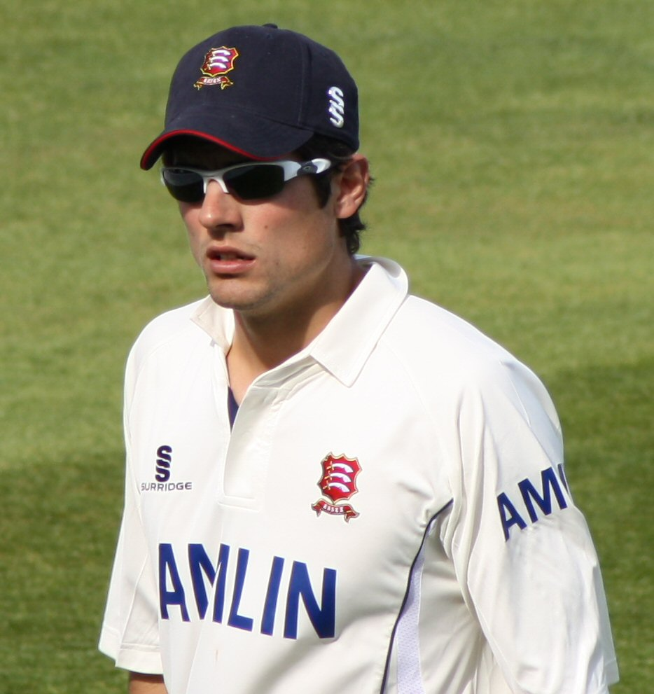 Alastair Cook in the field for Essex during a County Championship match against Somerset at Taunton.